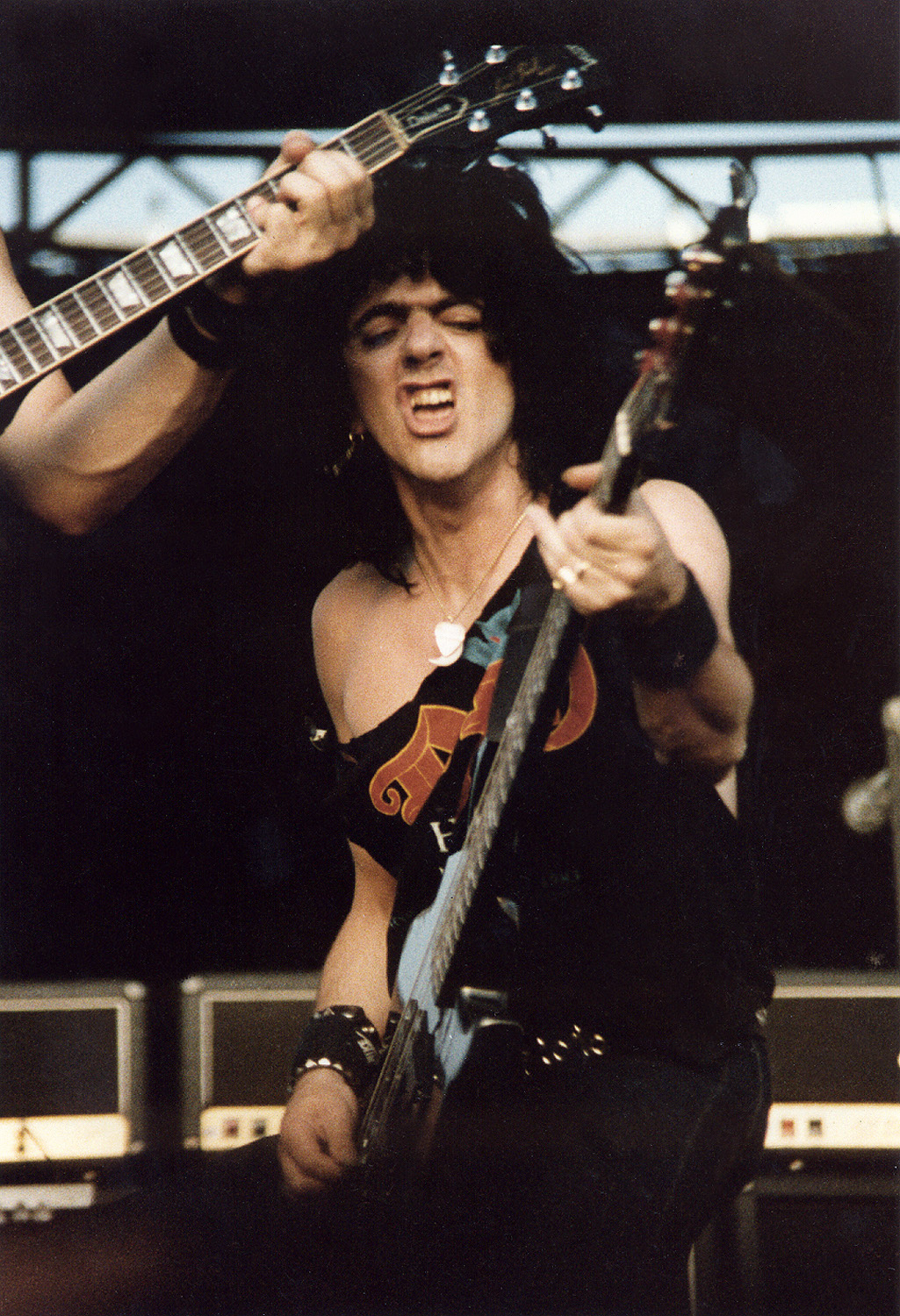 Cal Expo, Sacramento, California. 2 August 1983. Canon AE-1, 80-200 Toyo lens. 1000 ASA.